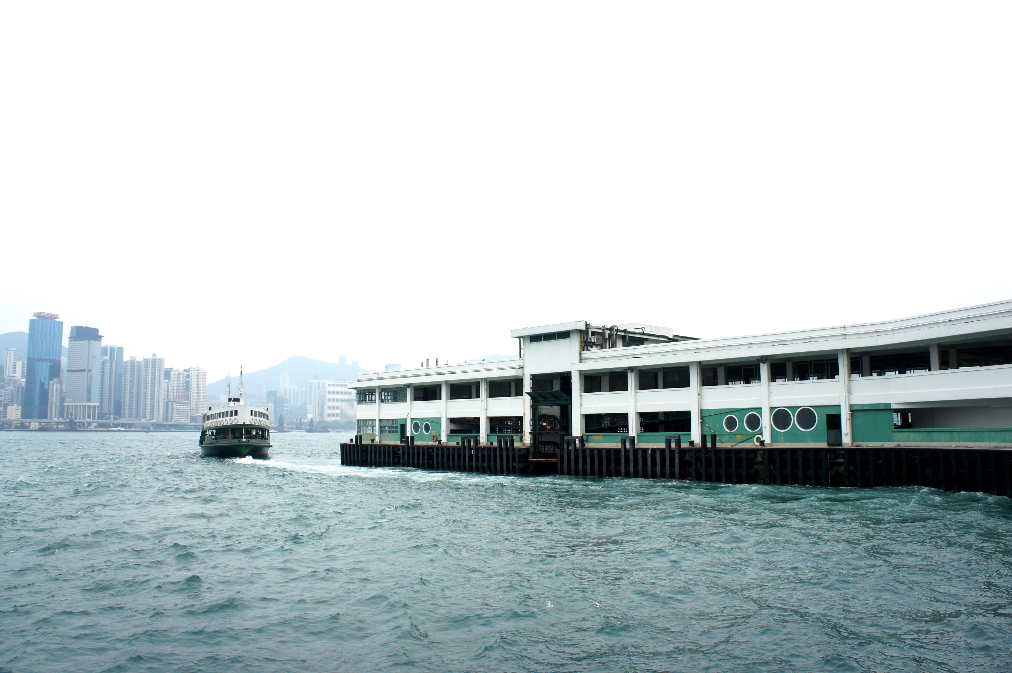 Hong Kong Hung Hom Ferry Piers